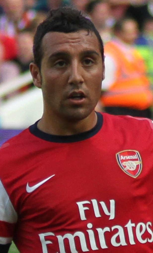 Santi Cazorla against Sunderland.